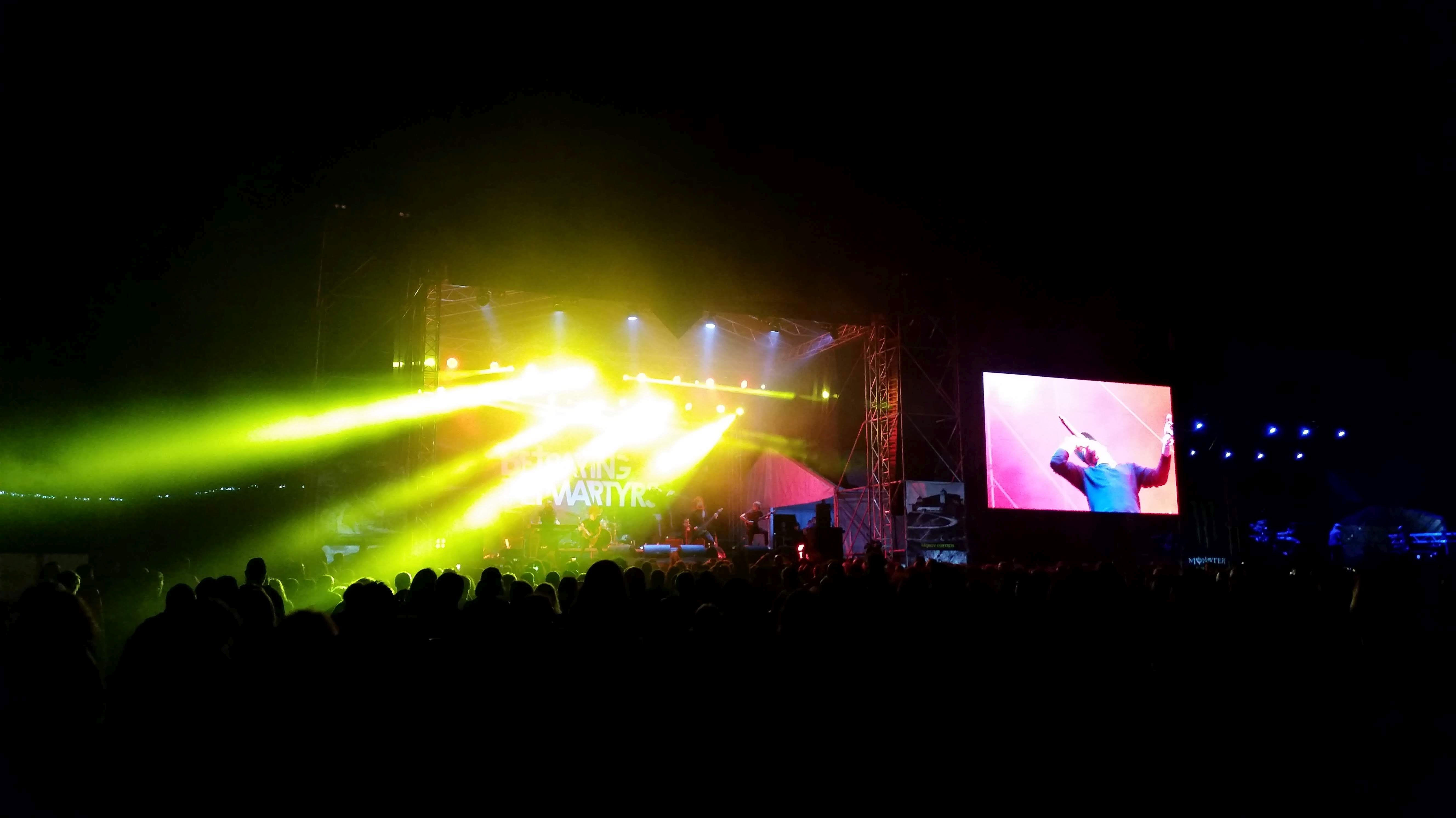 Betraying The Martyrs live at Rockstadt 2019 in Râșnov, Romania, on 01 August 2019